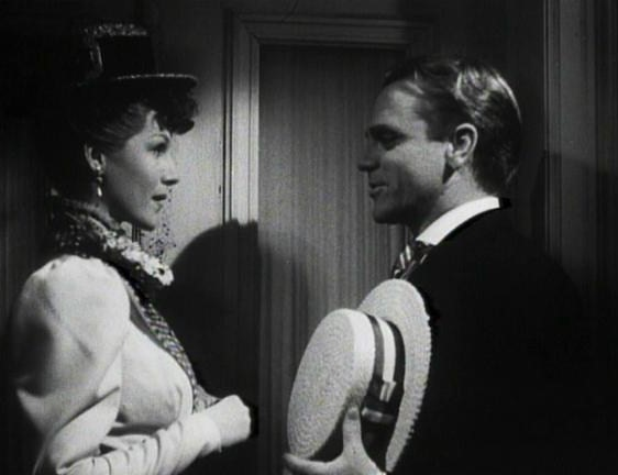 Frame from the public domain trailer for Warner Bros. 1941 film Strawberry Blonde Rita Hayworth and James Cagney